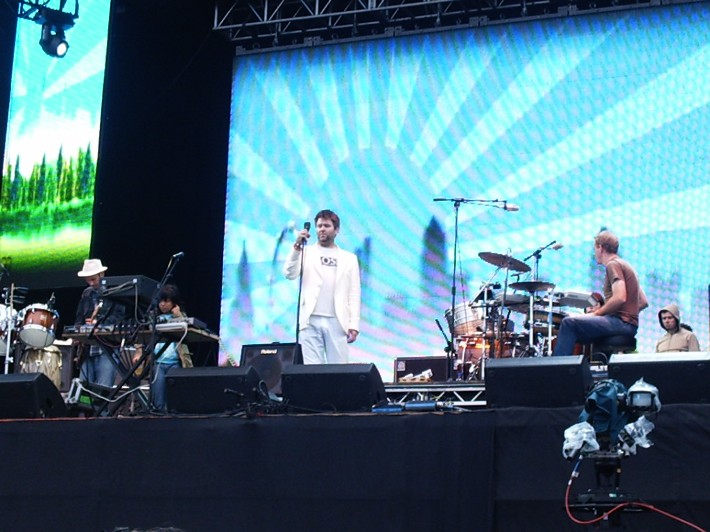 LCD Soundsystem